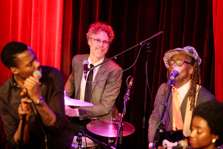 Blacknuss at the stage at Fasching jazz club. The concert took place on 04. November 2017. Lineup: Martin Jonsson (drums), Desmond Foster (bass guitar), Chuck Anthony (guitar), Kettil Medelius (keyboard), Tore Berglund (saxophone), Mats Äleklint (trombone), Albin Grahn (trumpet), Mary N’Diaye (vocal), Elin EllyEve Svensson (vocal), Prince Prime Mpedzisi (vocal), Unidentified (trumpet), Unidentified (vocal), Unidentified (baritone saxophone) and Unidentified (percussion).